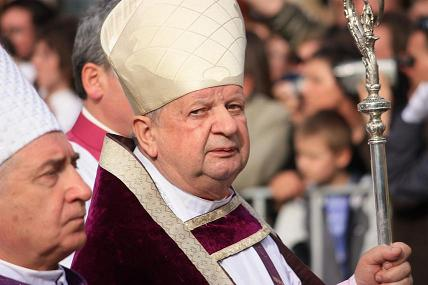 Stanisław Dziwisz